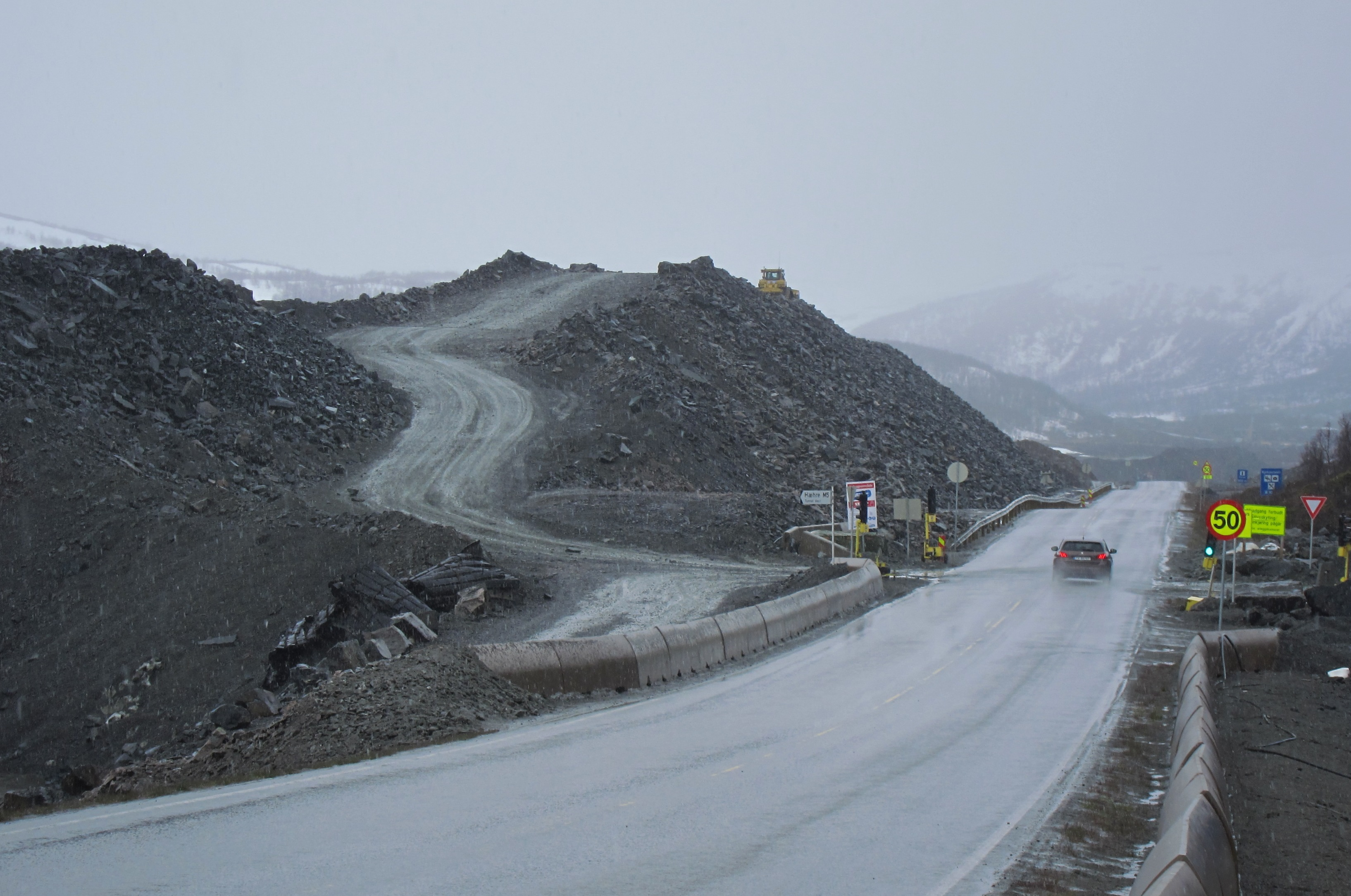 E16 construction at Filefjell, new Filefjell tunnel